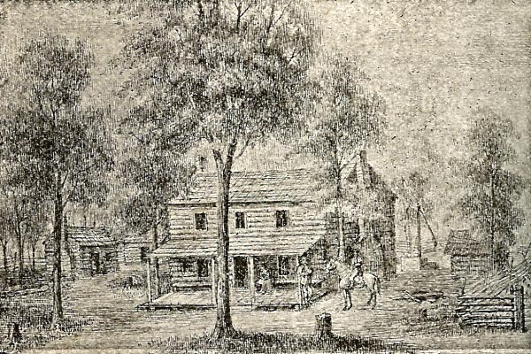 First courthouse of Wood County, [West] Virginia, a log building erected ca. 1802 at the mouth of Rifle Run, at Parkersburg. Part of the lower floor was used as a jail. Post & pillory in the rear.